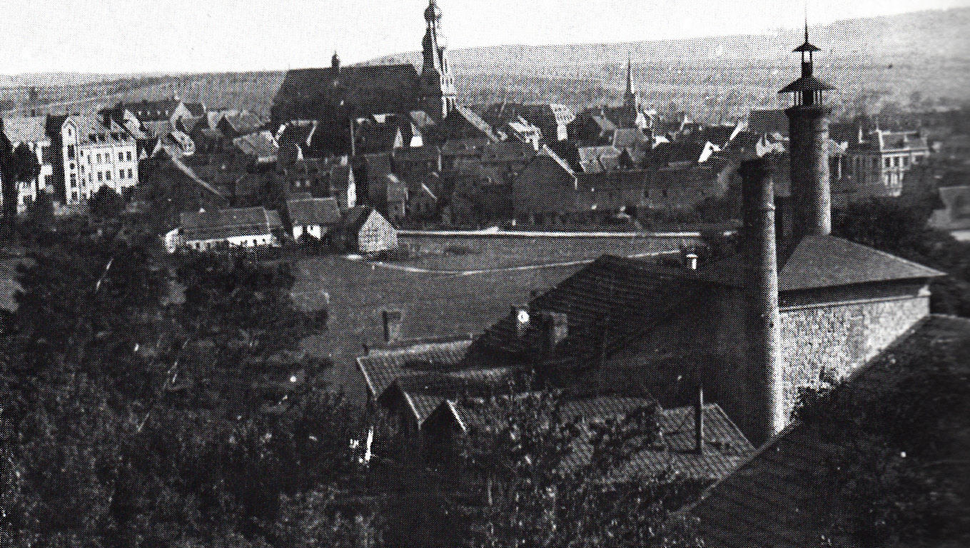 St. Wendel anno 1892